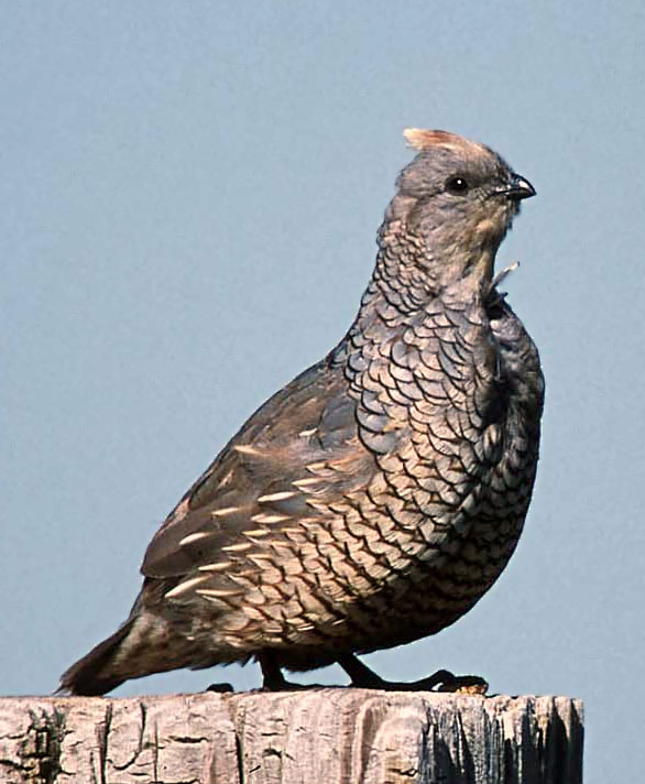 Scaled Quail, Callipepla squamata, perched on post. Location: Eastern New Mexico, United States.